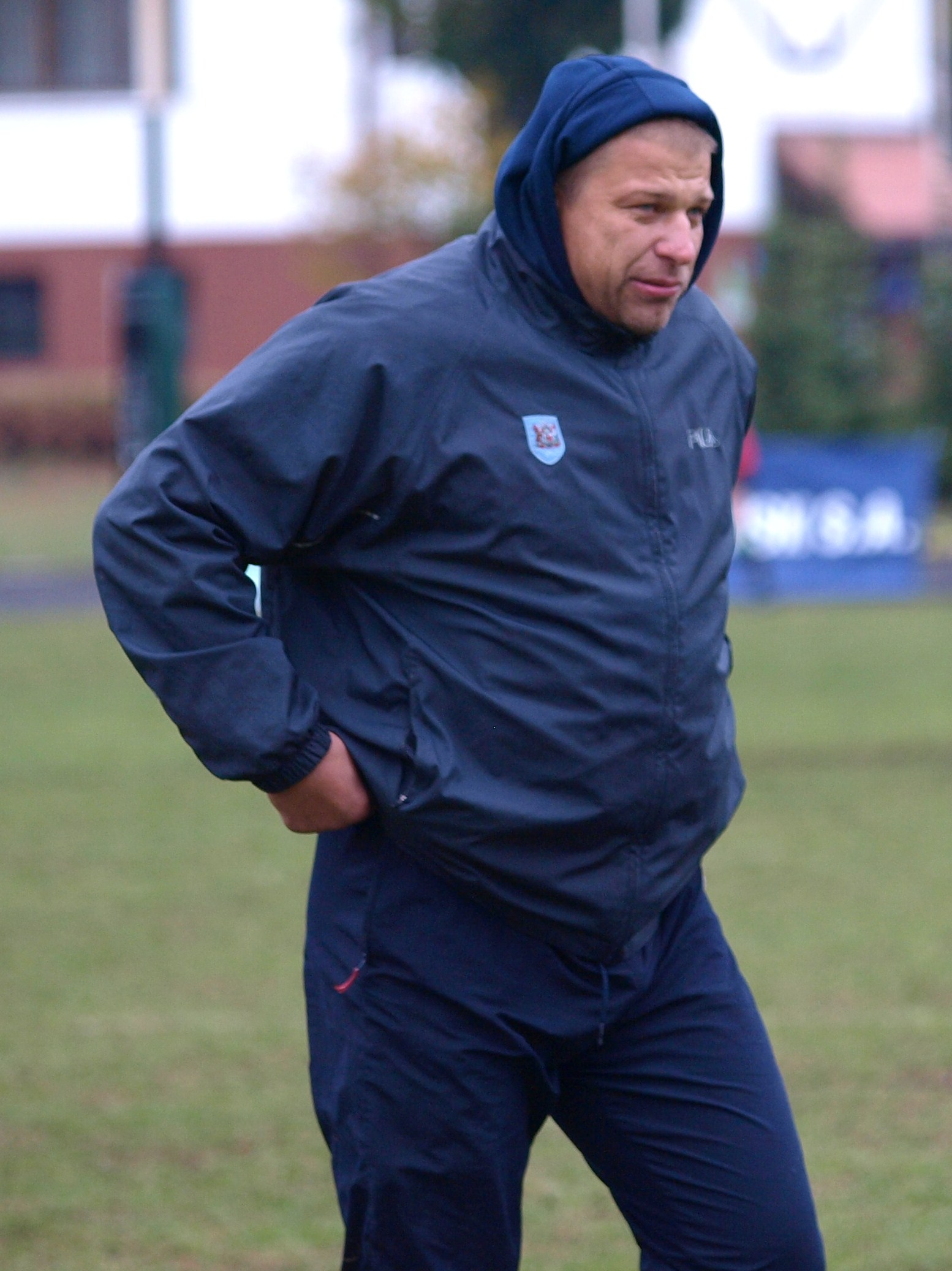 Grzegorz Kacała - a former rugby union player, currently a rugby union trainer from Poland.